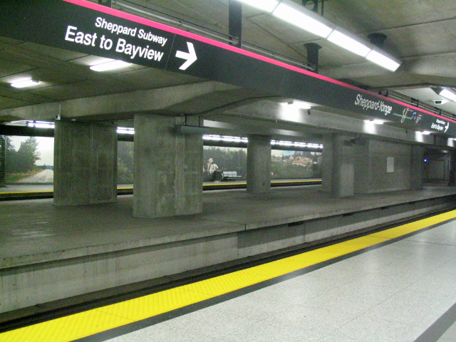 Toronto Subway, Sheppard-Yonge station: EA view across the eastbound platform. The roughed-in centre platform, as well as the public art across the tracks, can be seen.